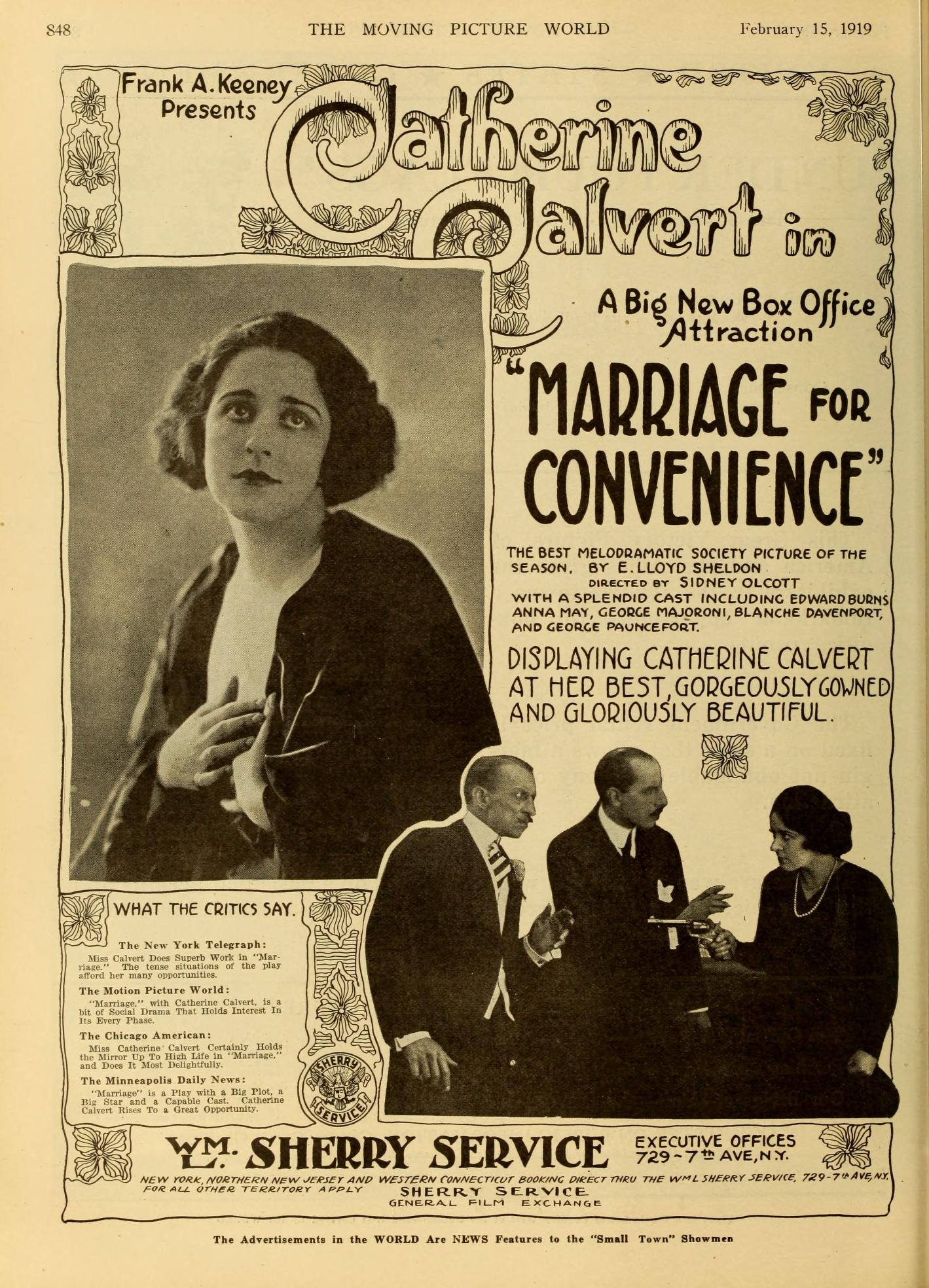 Advertisement in Moving Picture World for the film Marriage for Convenience (1919).